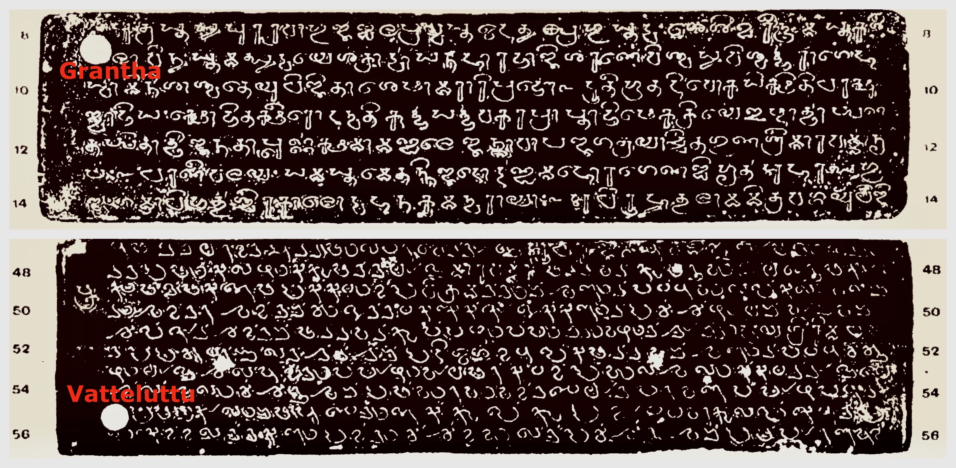 Velvikudi Grant of Nedunjadaiyan was issued about 770 CE, inscribed in a series of copper plate. The inscription is one of few where both Sanskrit language and Tamil language was written in the same grant. Sanskrit was written in Grantha script, while Tamil was written in Vatteluttu ( also called Vattezuttu ) scripts. Lines 1-30 and 142-150 were in Sanskrit, while lines 31-141 were in Tamil (except some words in these lines were borrowed from Sanskrit and were written in Grantha). The text begins by invoking the Hindu god Shiva, reverentially refers to the Pandya kings, the sage Agastya, mentions some Hindu legends such as the samudra manthan (churning of cosmic ocean), conduct of a Vedic ritual, and some historical events in the kingdom. It mentions the past charitable deeds, and records a grant of villages. It then returns to Sanskrit and reverentially recites four verses from Vaishnavism teachings (note the start of the grant is related to Shaivism). The scribe writes his name at the end as Yuddhakesari Perumbanaikkaran. The above photo shows two plates, one with Grantha (Sanskrit language) and other with Vatteluttu (Tamil language) scripts. For more, see: Epigraphia Indica, Vol. XVII (1923-24), Editor: Rao Bahadur H Krishna Sastri, pp. 291-298 This is a photo of a 2-D inscription created in the 8th-century CE. Therefore Wikimedia Commons PD-Art licensing guidelines apply. Any rights I have as a photographer is herewith donated to wikimedia commons under CC 4.0 license.